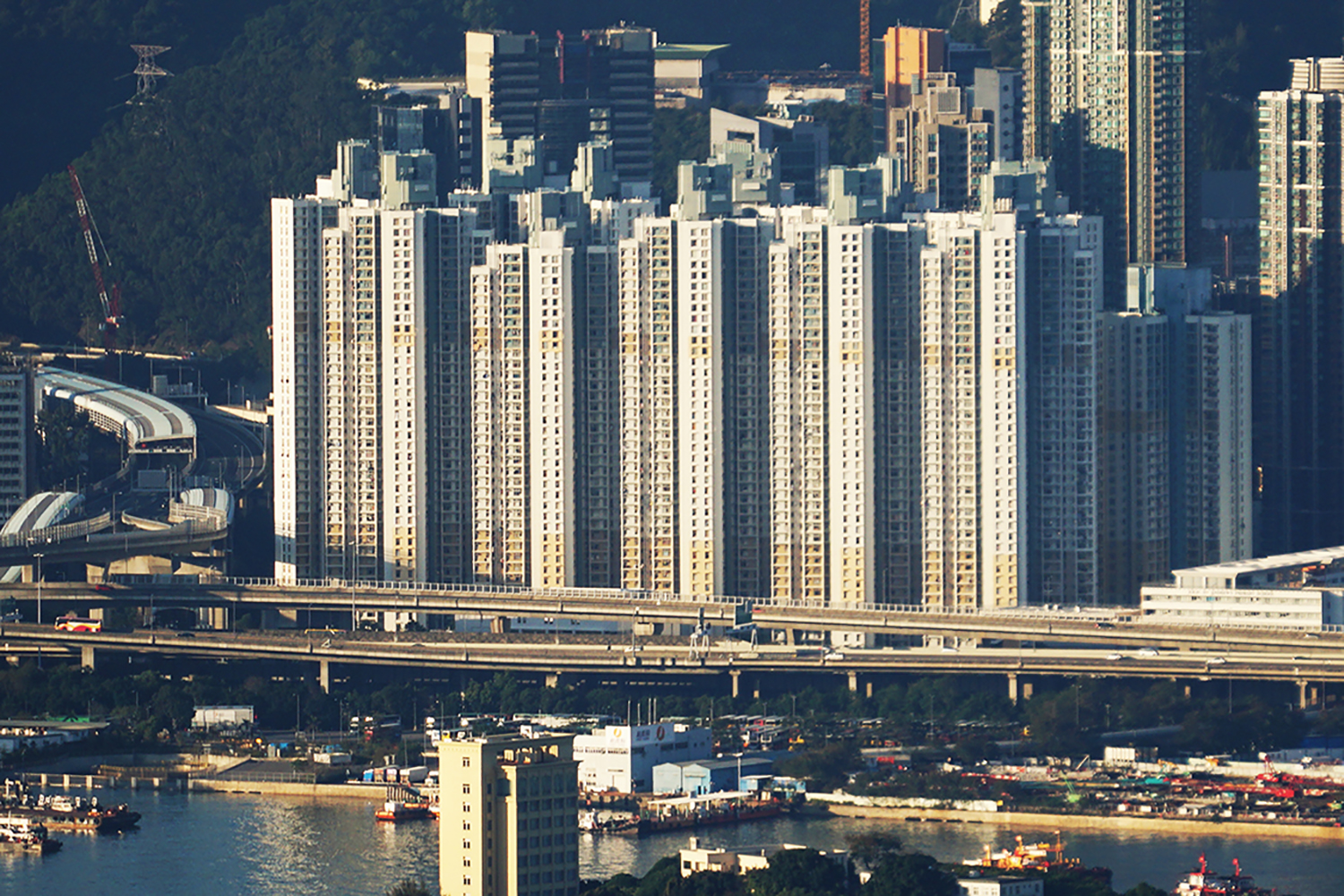 Hoi Lai Estate in Lai Chi Kok, Hong Kong.